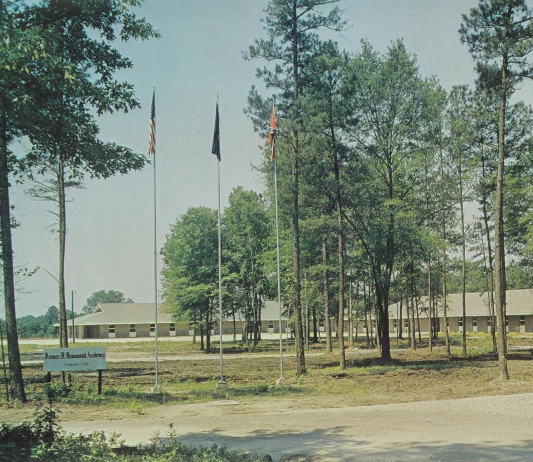 The Hammond School (South Carolina) opened in 1966